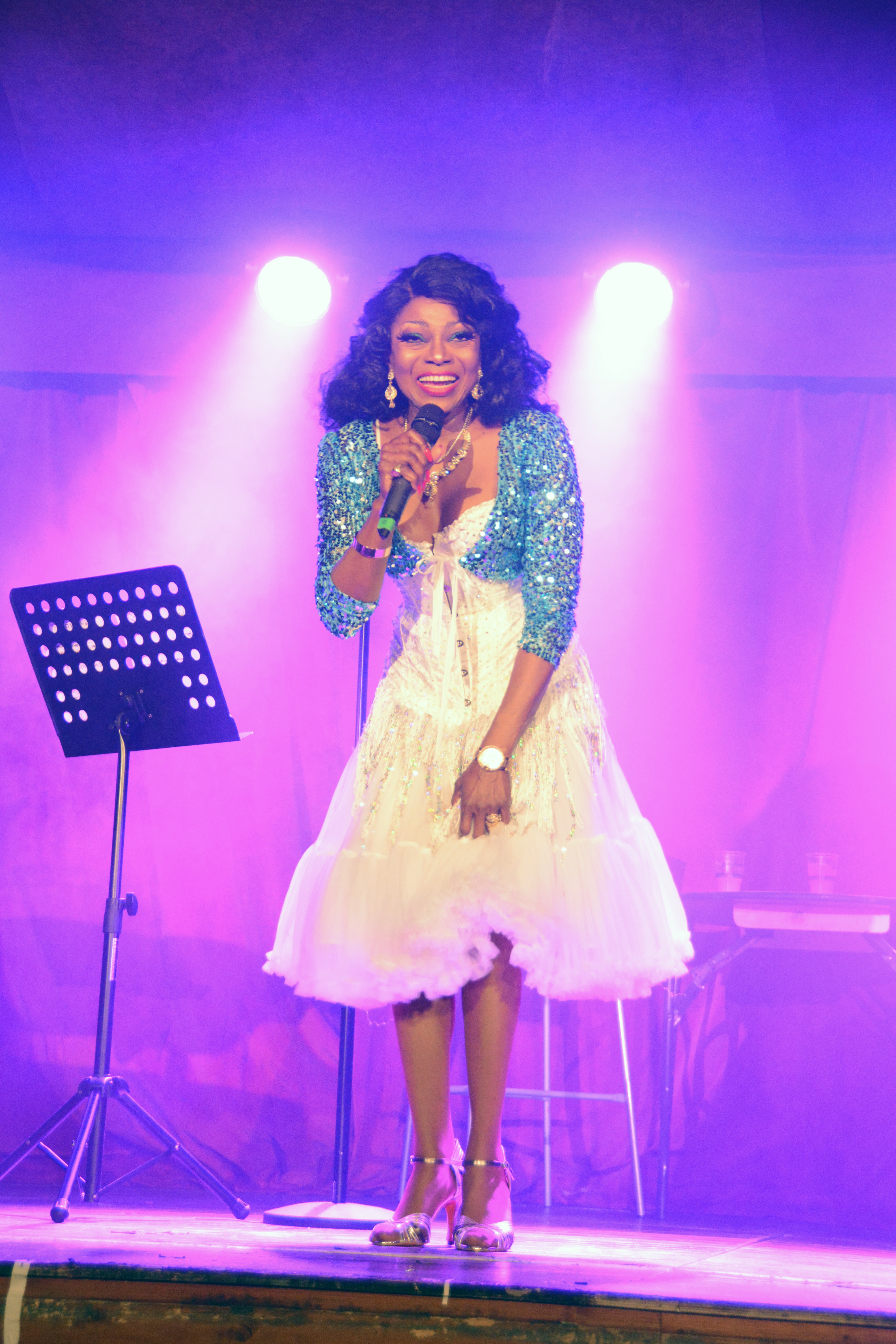 Patti Boulaye on stage in her one-woman show "Aretha & Me" August 2019